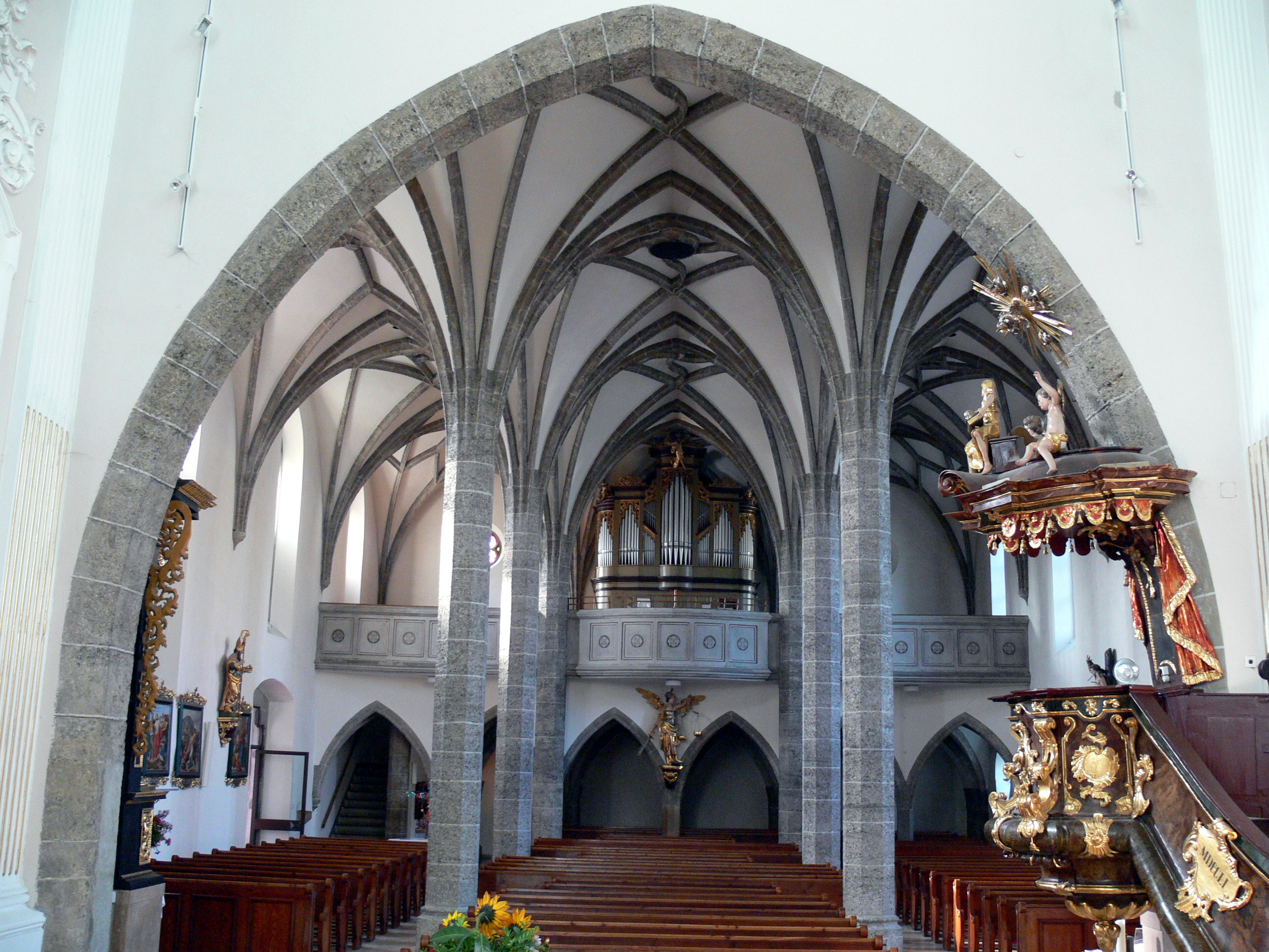 Altmünster ( Upper Austria ). Saint Benedict parish church: Interior - View to the nave ( 1473 )